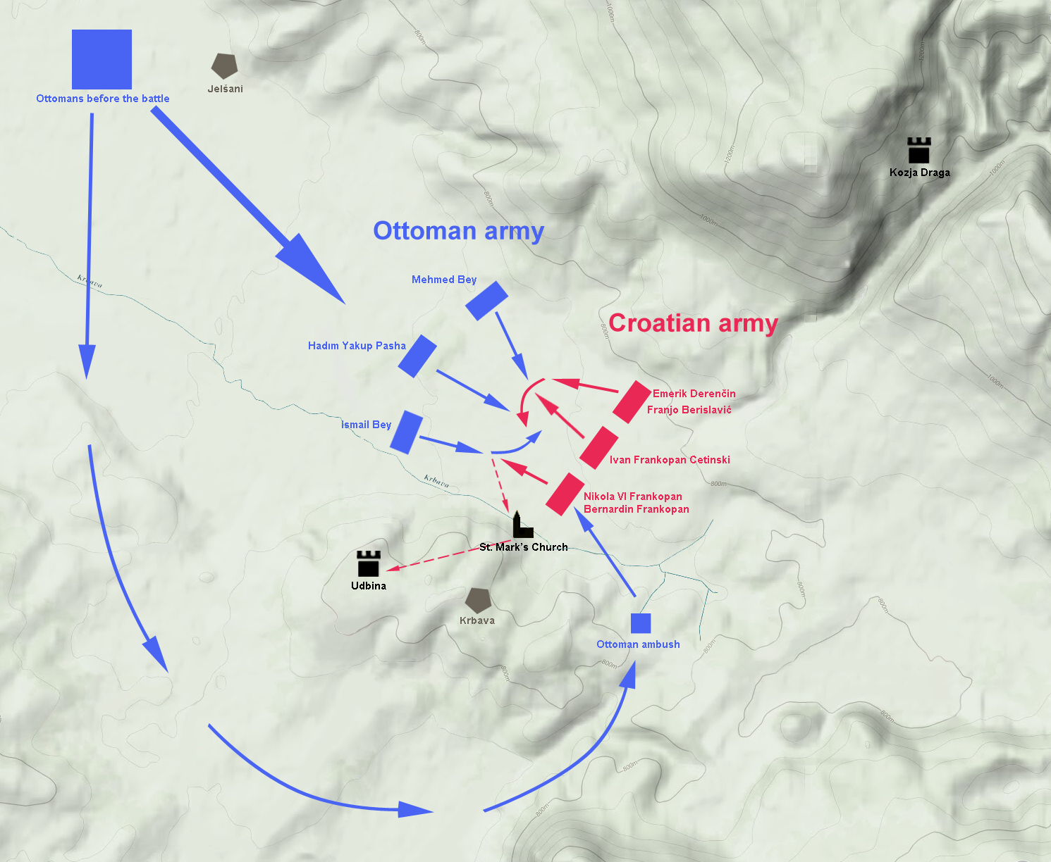 Plan of the battle of Krbava Field in 1493